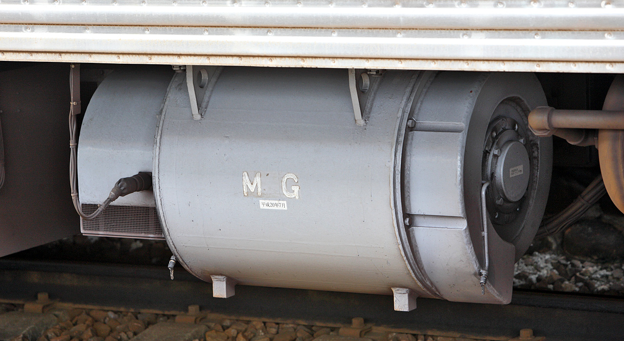 A motor generator of the Nagoya Municipal Subway 3000 series EMU ( 3813 ).